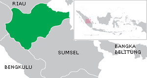 Jambi province on Sumatra island, Indonesia